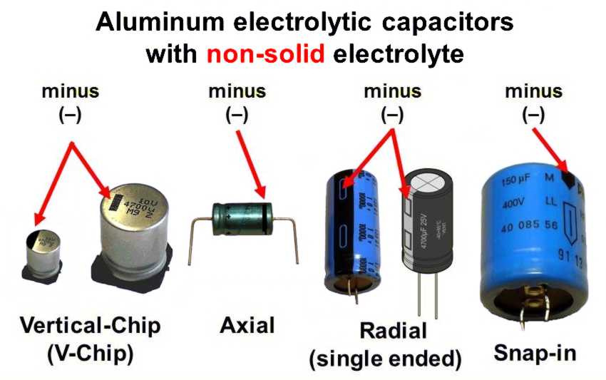 polarity marking of wet aluminum elcaps